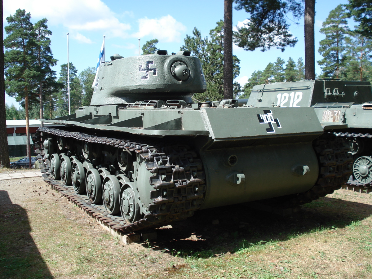 Soviet KV-1 tank manufactured in 1942 and captured by the Finns in April 1942, displayed in Finnish Tank Museum (Panssarimuseo) in Parola. Photo taken on July 14, 2006. Source: Photo by me, User:Balcer.